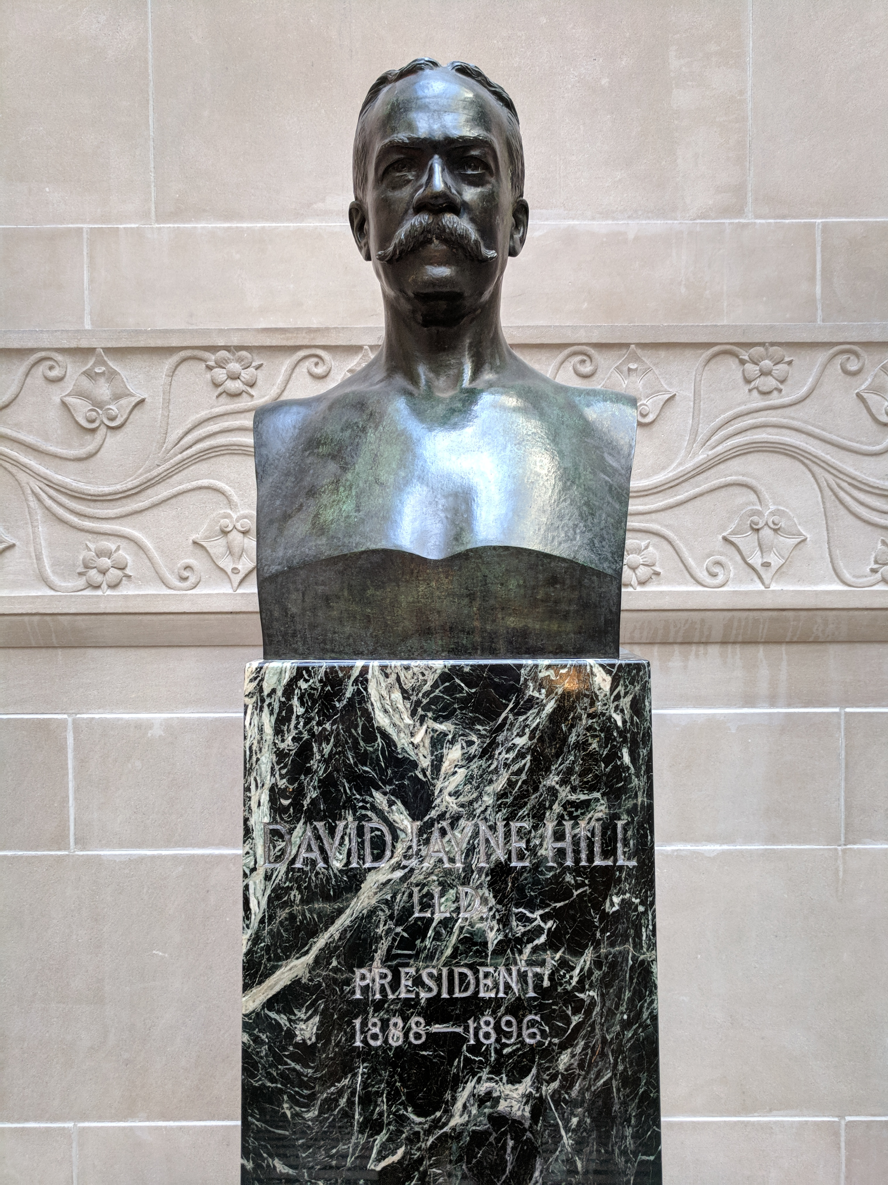 Bust of David Jayne Hill in Rush Rhees Library on the campus of the University of Rochester. Inscriptions on its right side and rear read, respectively: “ ALEXIS RUDIER. FONDEUR PARIS. ” —Right side of bust, Caster's mark “ AVGVSTVS-SAINT-GAVDENS- WASHINGTON-MAY-MCMI- ” —Rear of bust, Artist's mark